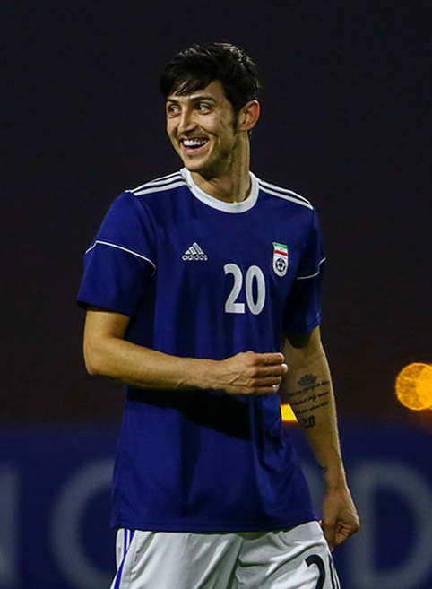 Sardar Azmoun